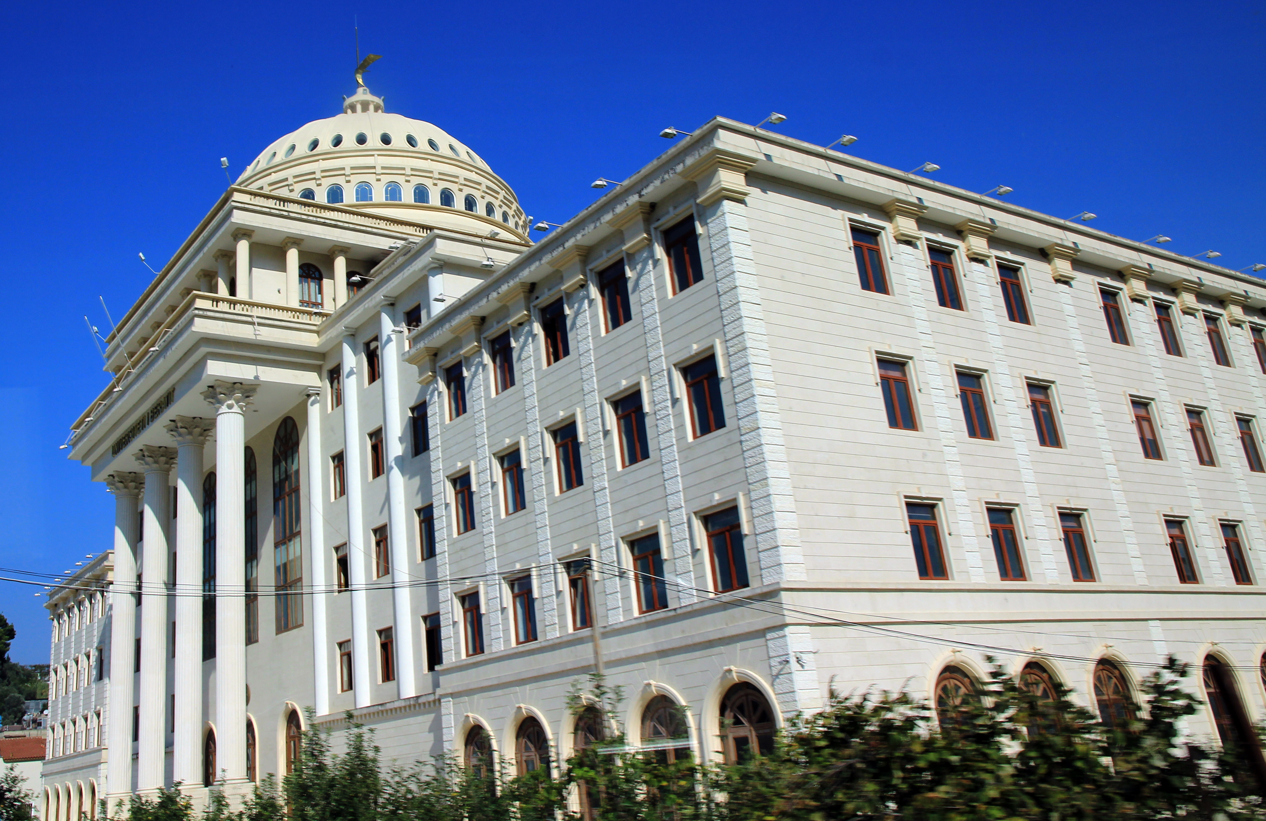 The building of Albanian University in Berat in the centum of the town Berat, central Albania, September 2018